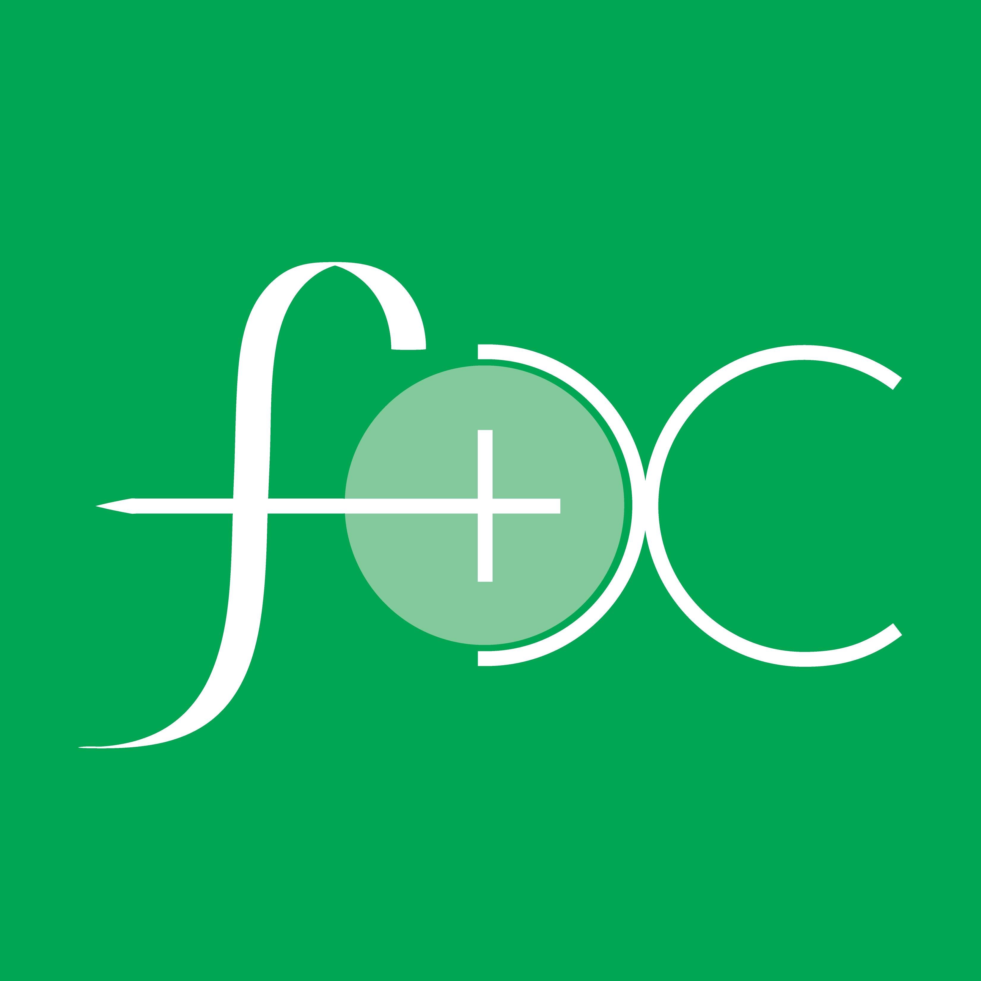 Faith Development Council Logo